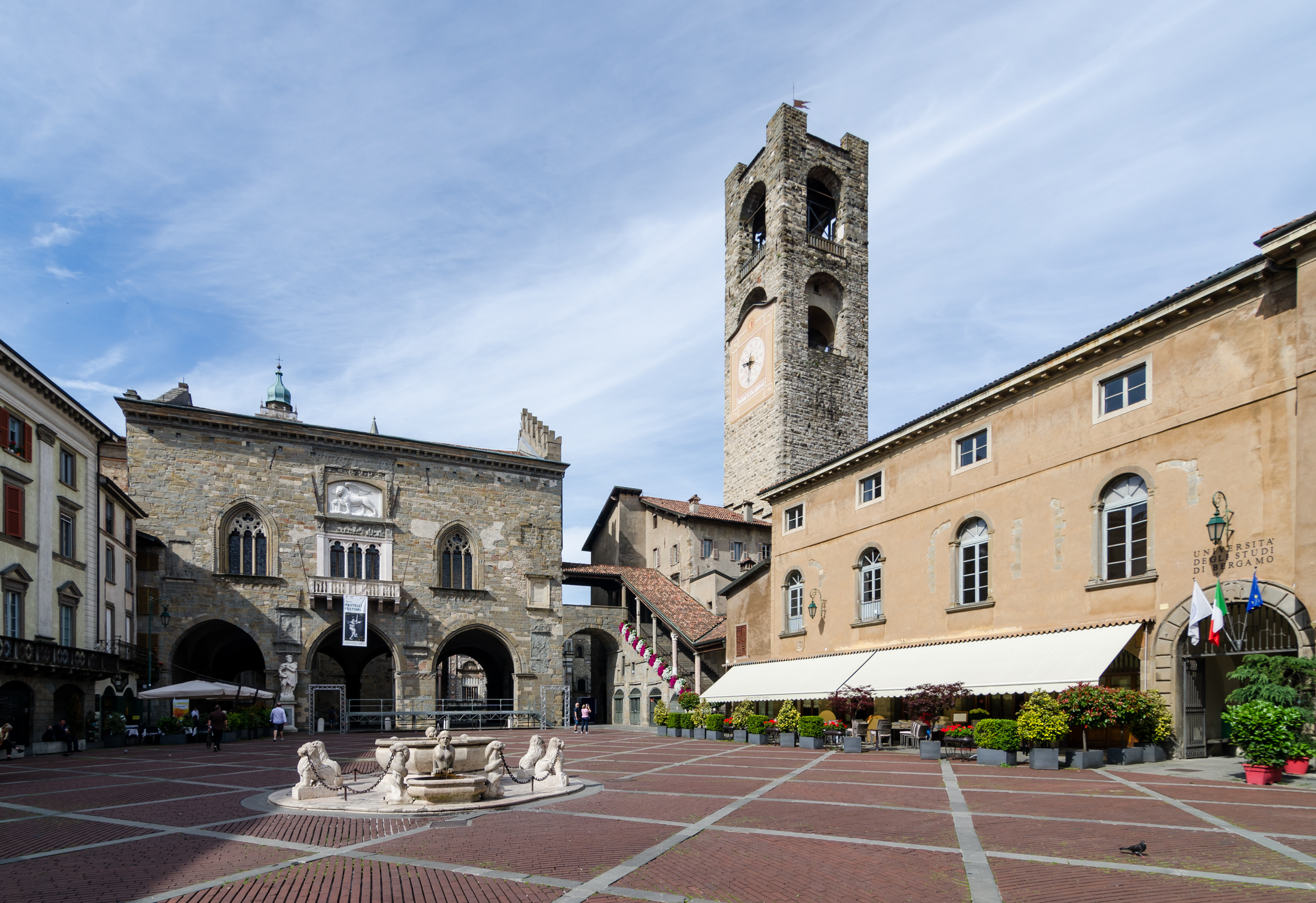 Bergamo (Lombardy, Italy) – upper city – Piazza Vecchia